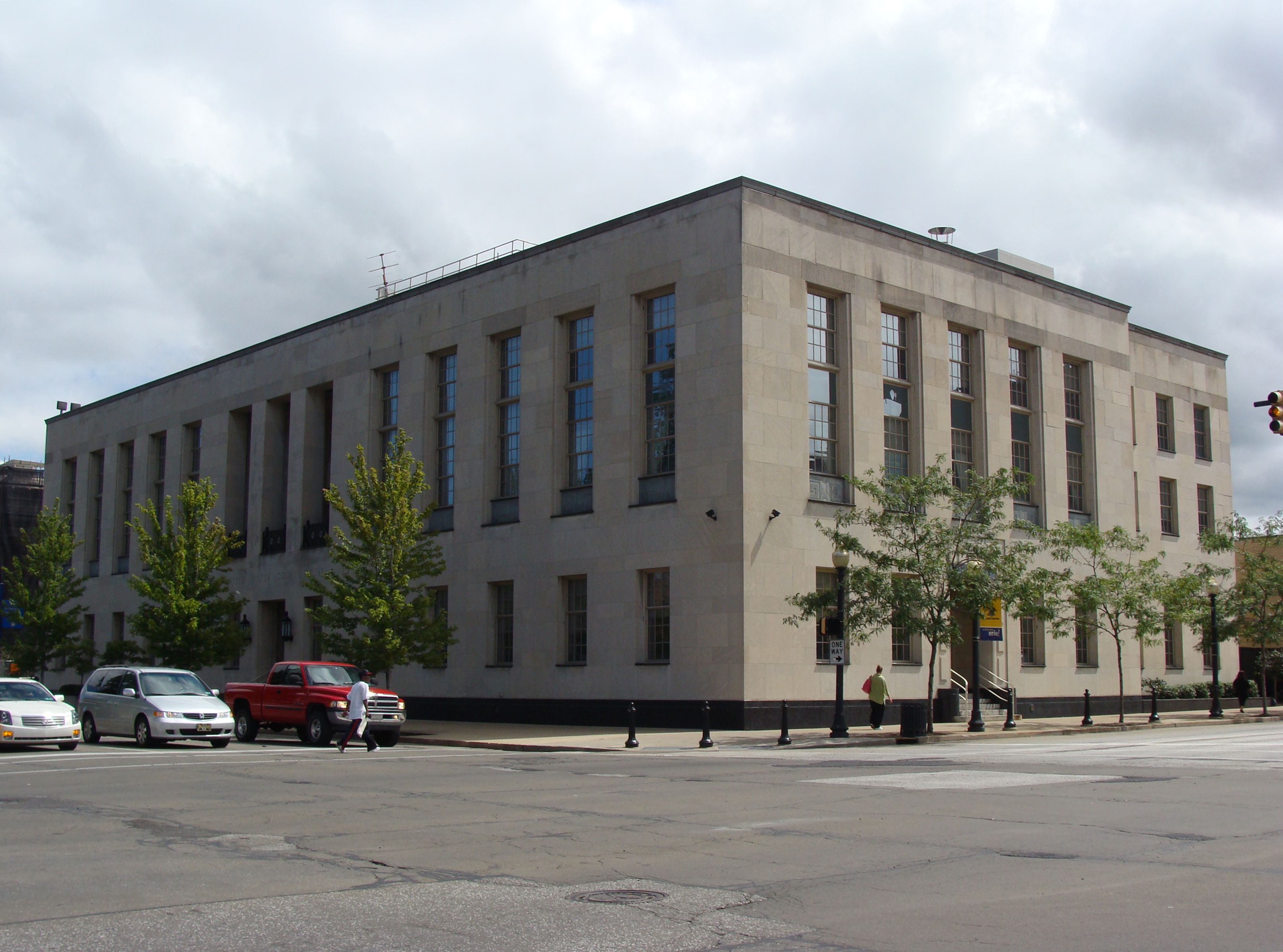 The original courthouse of the Erie Federal Courthouse complex in Erie, Pennsylvania. Listed on the National Register of Historic Places in 1993.